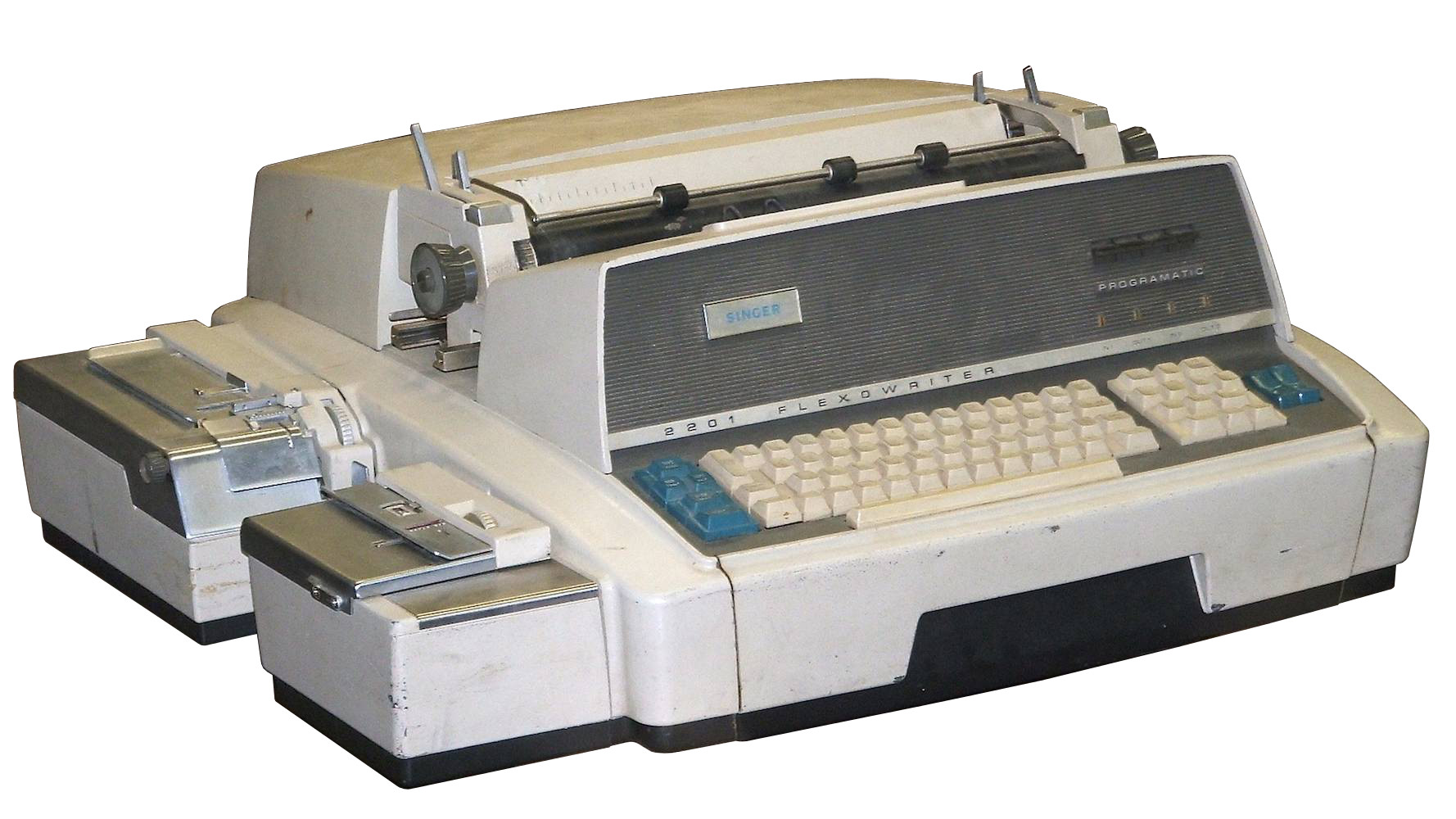 A Singer/Friden Flexowriter model 2201 Programatic, built circa 1968, serial number 209003. This model can read and punch either paper tape or edge-punched cards using an 8-bit code. A plugboard under the rear cover controls the interpretation of the 13 programmable function keys to the right of the main keyboard.